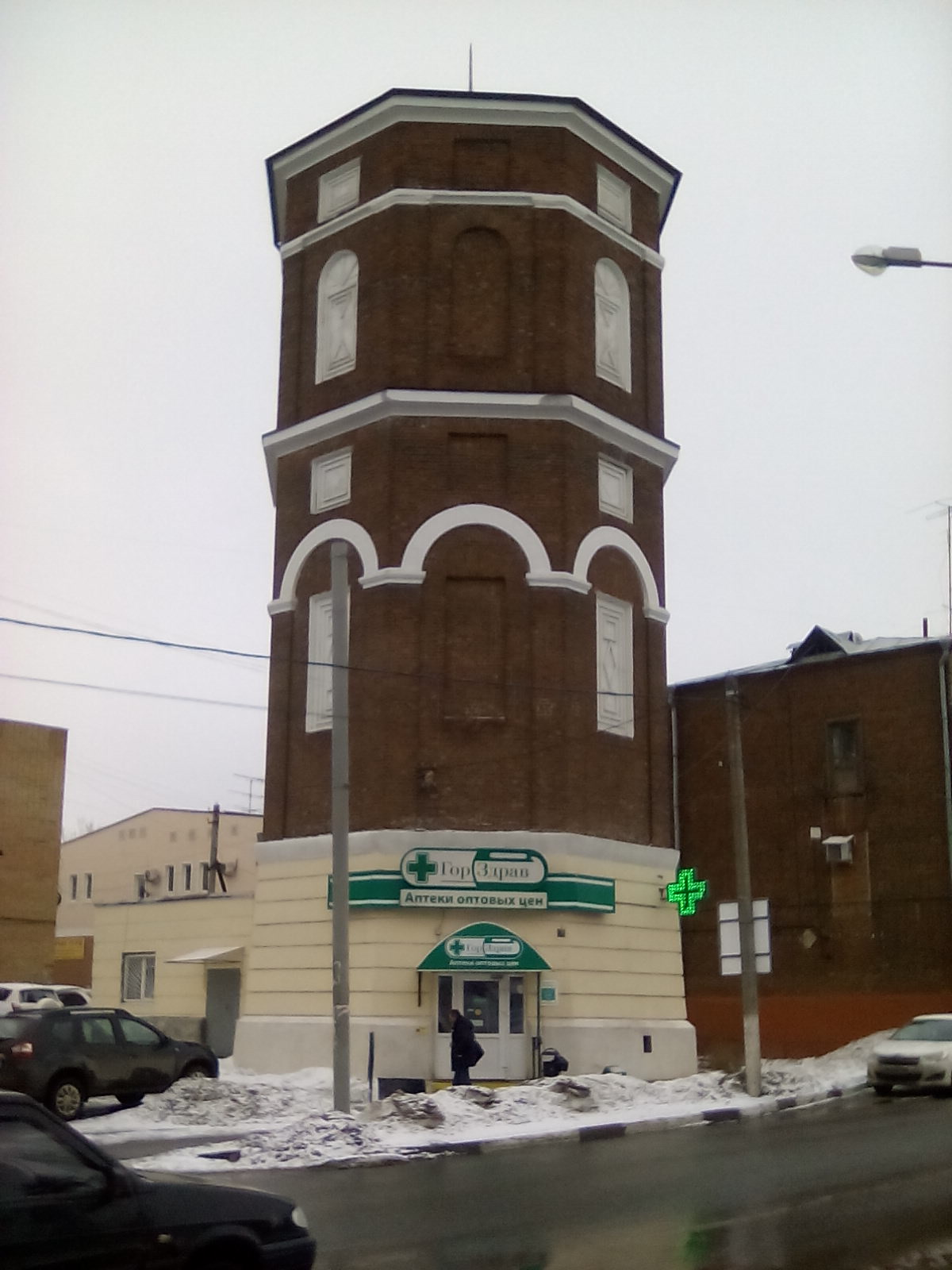 Kirova Street in Pavlovsky Posad. Old water tower.